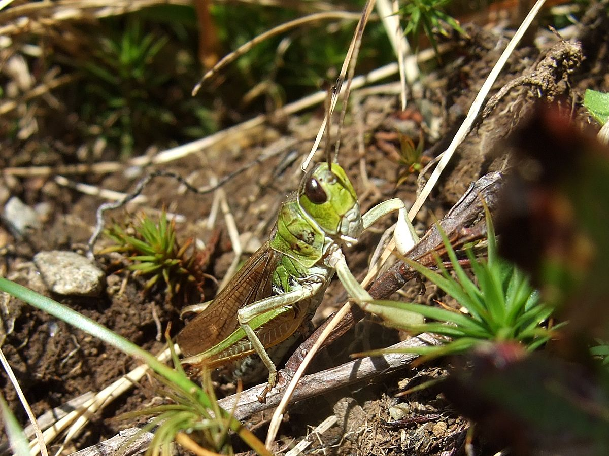 Gomphocerus sibiricus, male. - Austria, Salzburg (state), Saalfelden, Asitz.